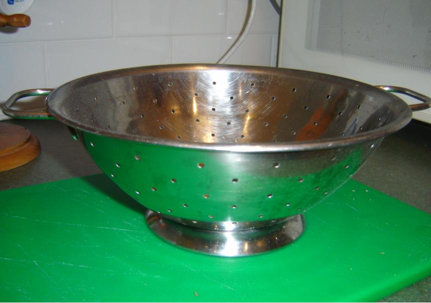 A colander, photographed by DO'Neil.